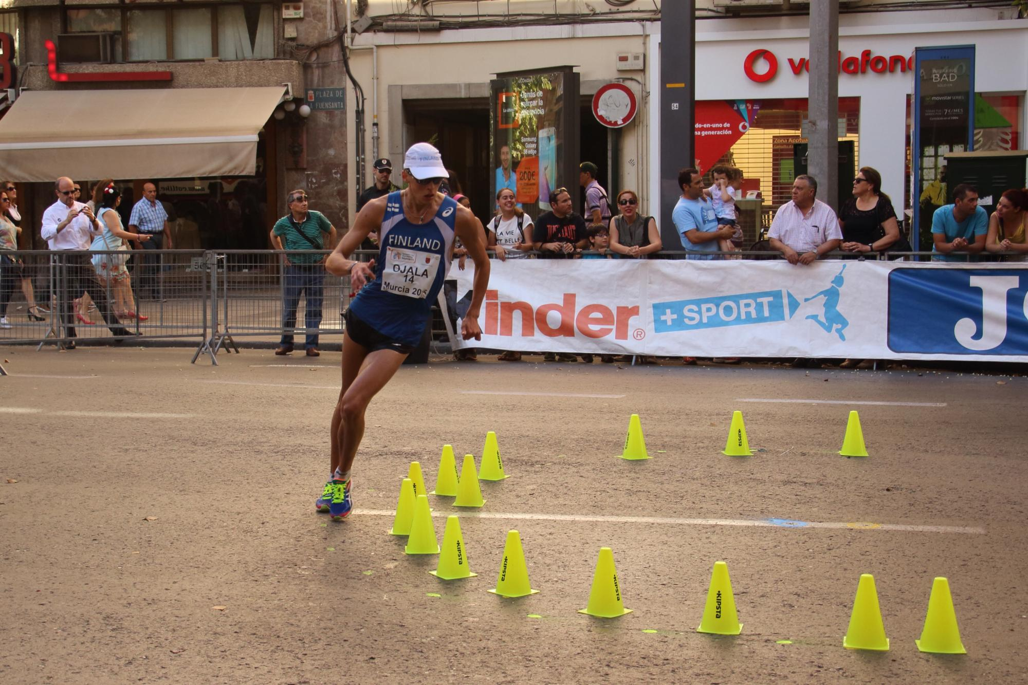 14-Aleksi Ojala (FIN) in the 11th European Cup Race Walking Murcia ESP 17 May 2015